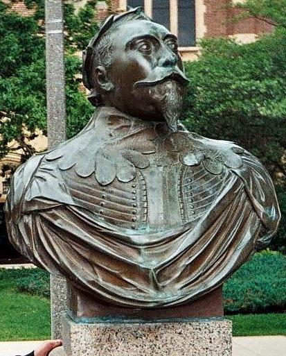 Bust of King Gustav II Adolph of Sweden produced by Herman Bergman in 1932Place: Gustavus Adolphus Campus, St. Peter, Minnesota